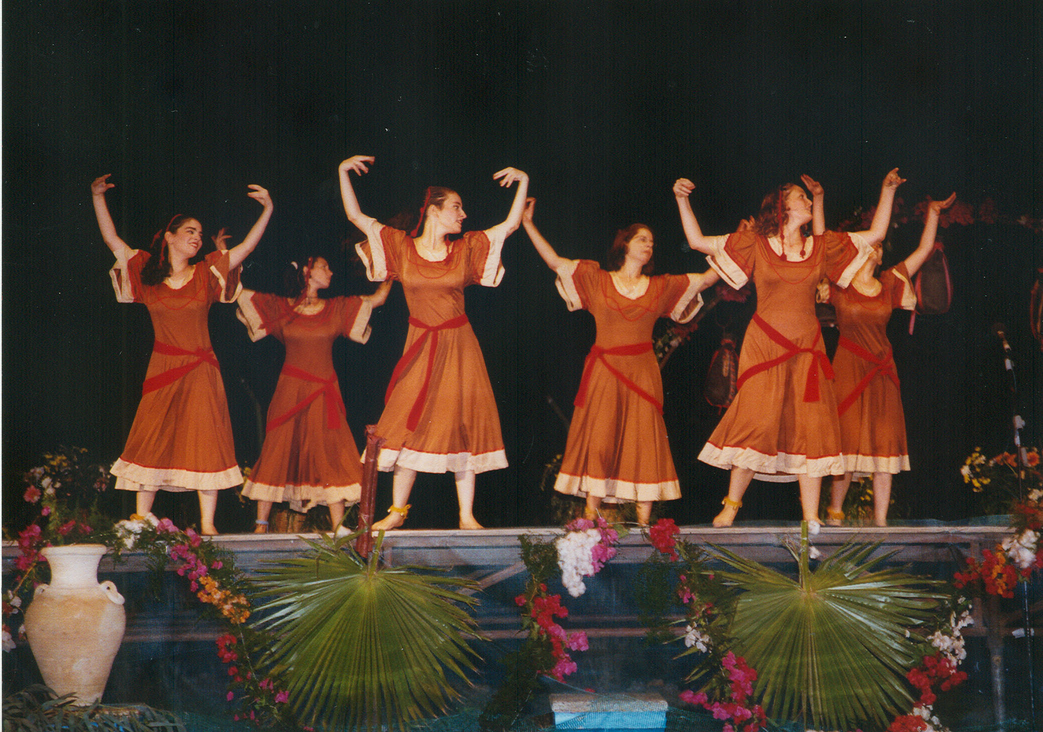 Water Festival at Kibbutz Ramat Yohanan, Jewish holidays